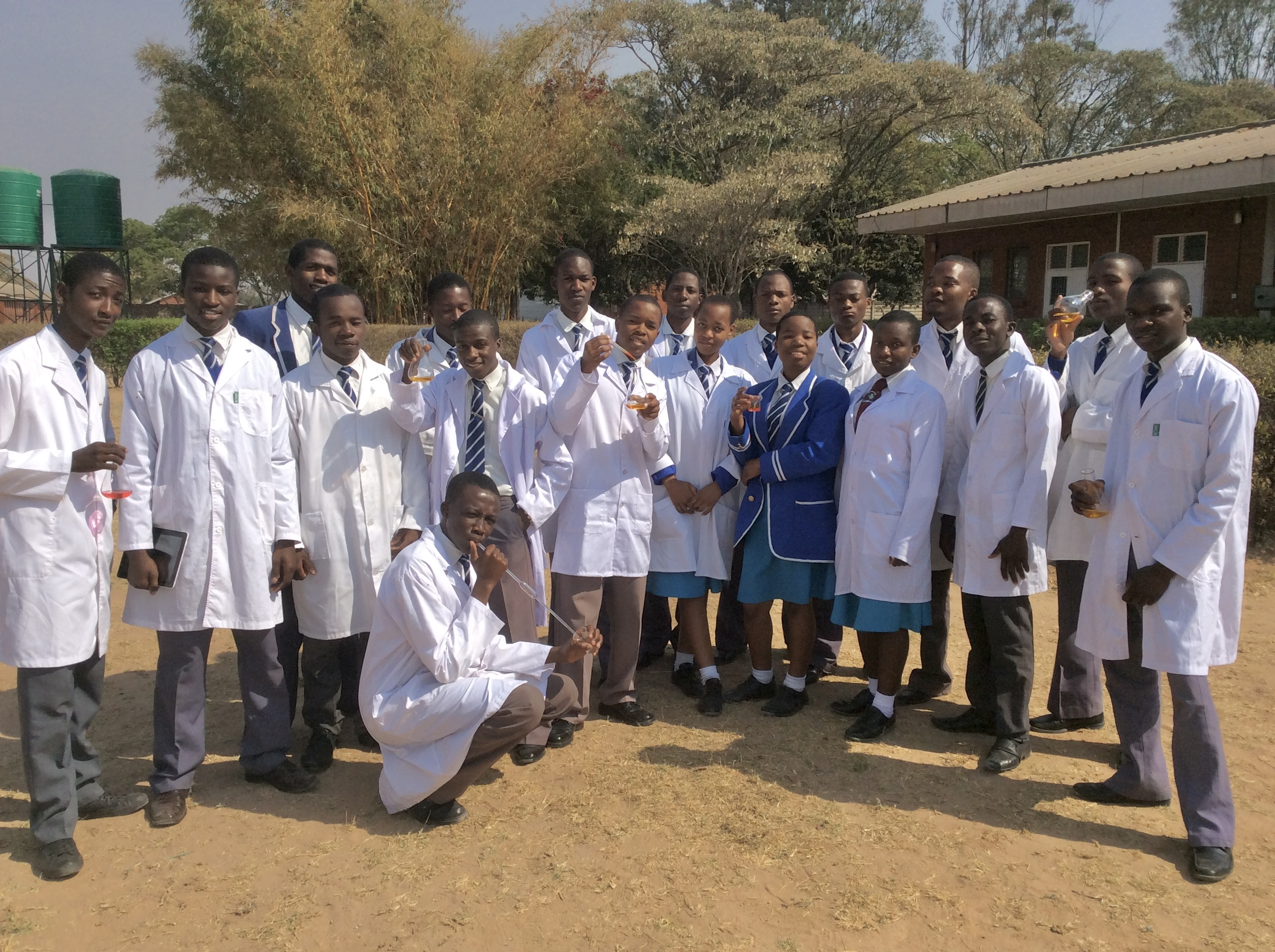 zengeza 2016 advanced level science students after conducting an experiment